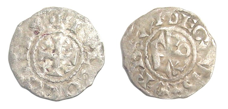 Coins attested to Fulk IV, count of Anjou